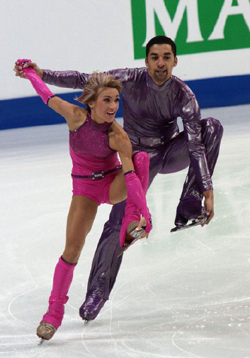 Aliona Savchenko & Robin Szolkowy (GER) lift their free legs up into a spiral position during their spiral sequence during their short program at the 2009 European Figure Skating Championships. They placed second in this segment of the competition and first overall.